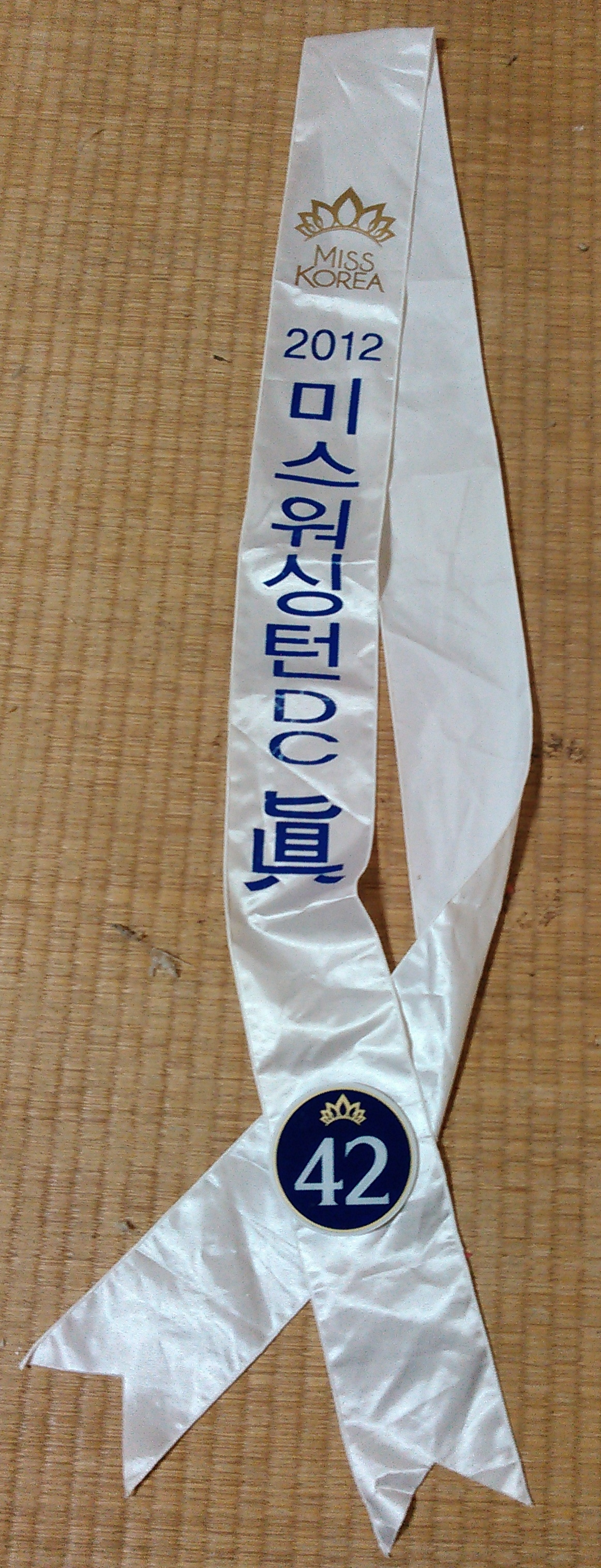 Sashes is Miss Korea Washington DC Grandprix 2012 Gu minjon